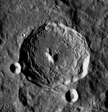 Plutarch lunar crater - LROC image